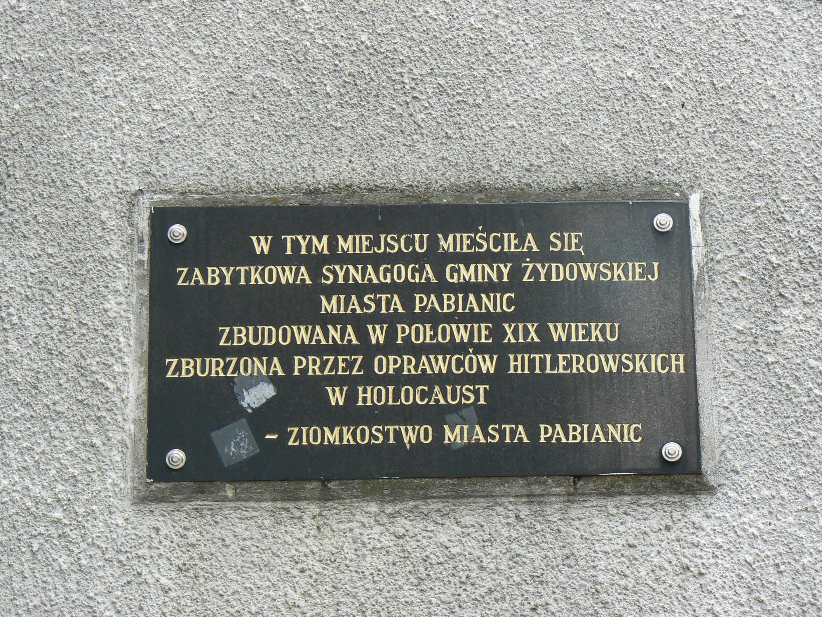 The commemorative plaque commemorating the synagogue dismantled in the 1960s in Pabianice at Bóźniczna St. no. 4 (the plaque is placed on the building at Bóźniczna St. no. 6).